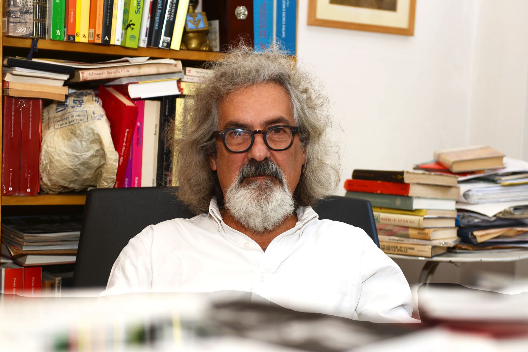 Beppe Cottafavi nel suo studio